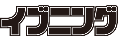 The logo of the manga magazine Evening (Japanese: イブニング, Ibuningu).